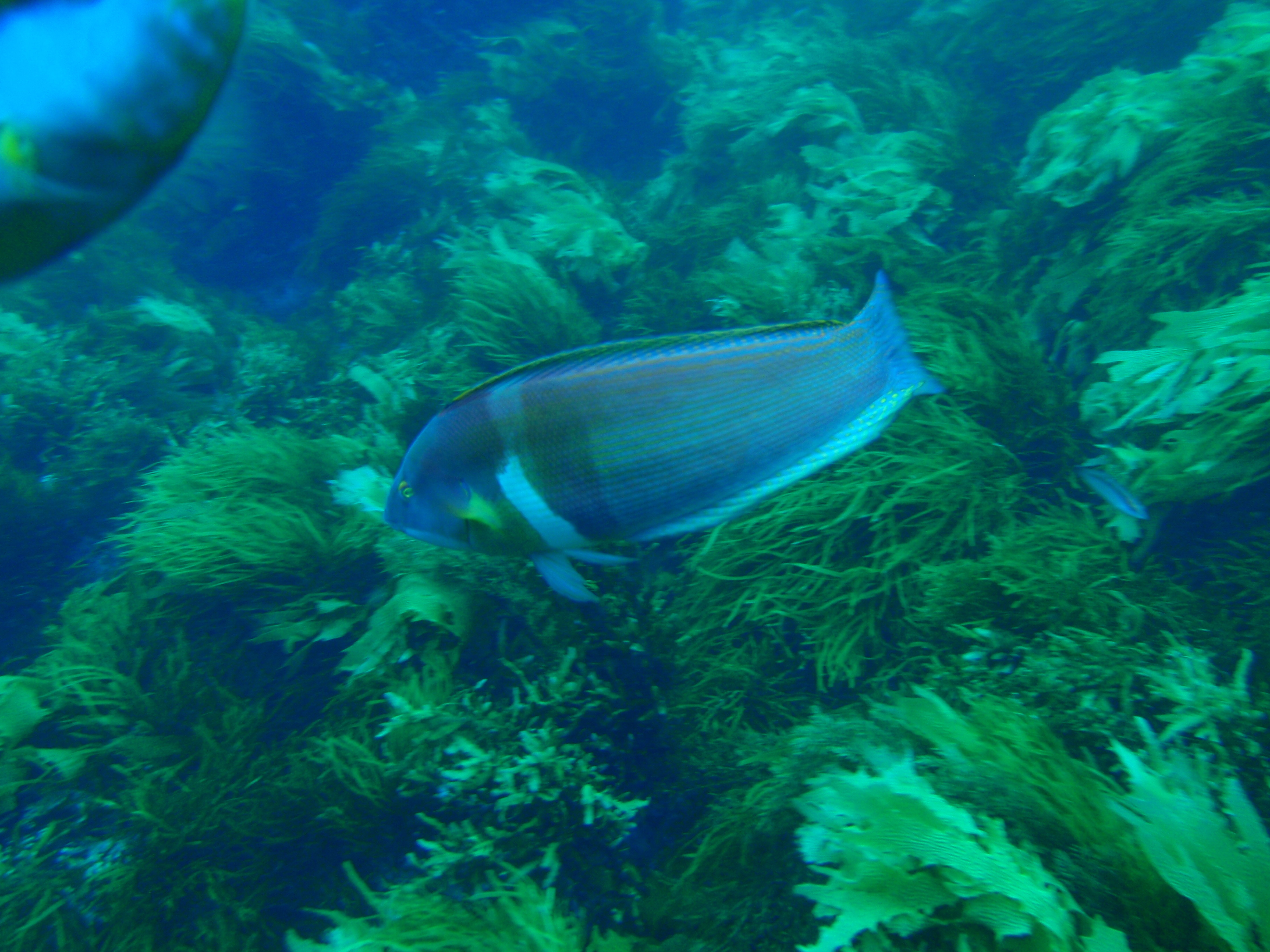 King wrasse Coris auricularis at North Cove, Bald Island, Western Australia